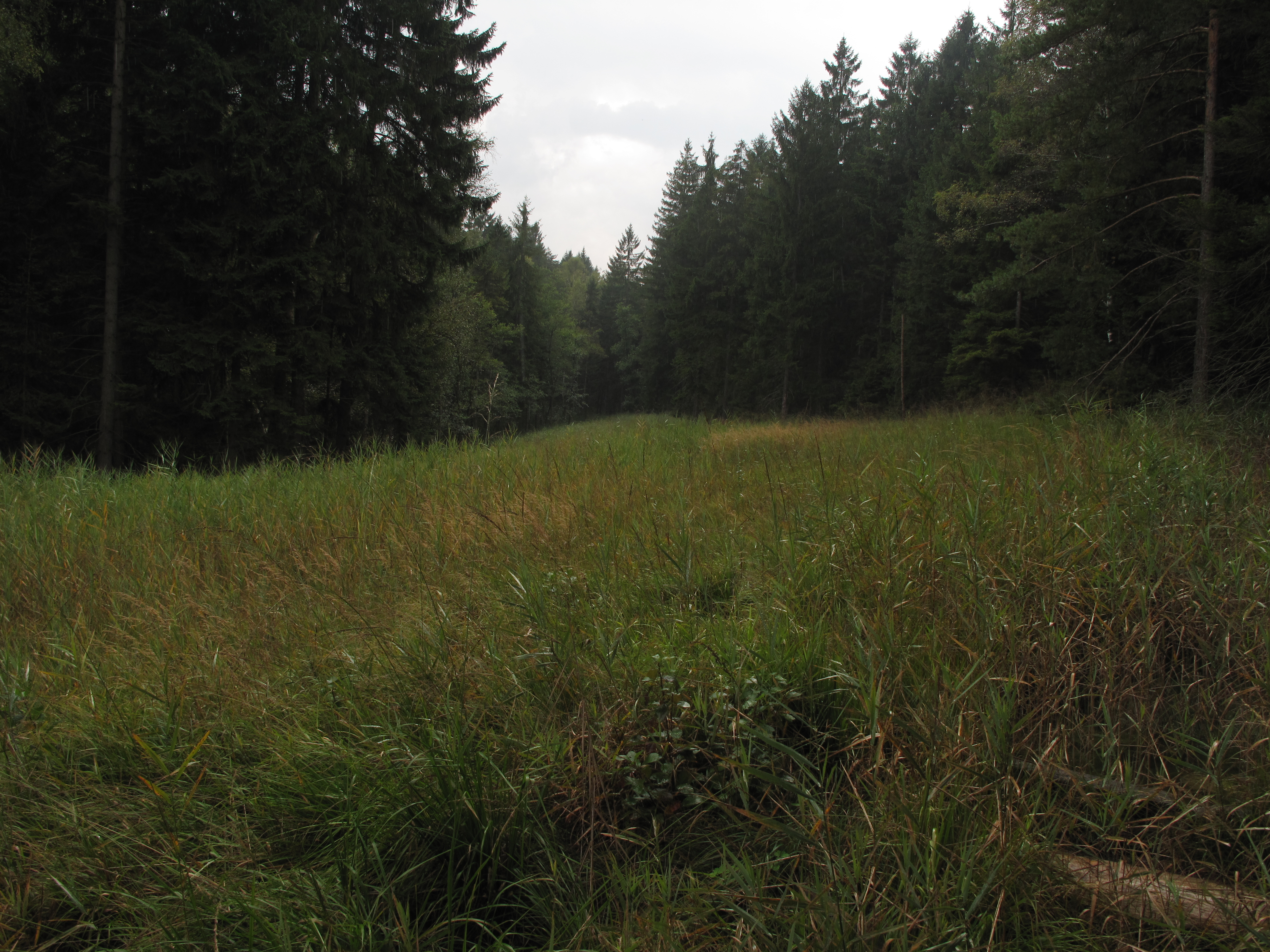 National nature monument Cikánský dolík, Kladno District, Czech Republic.